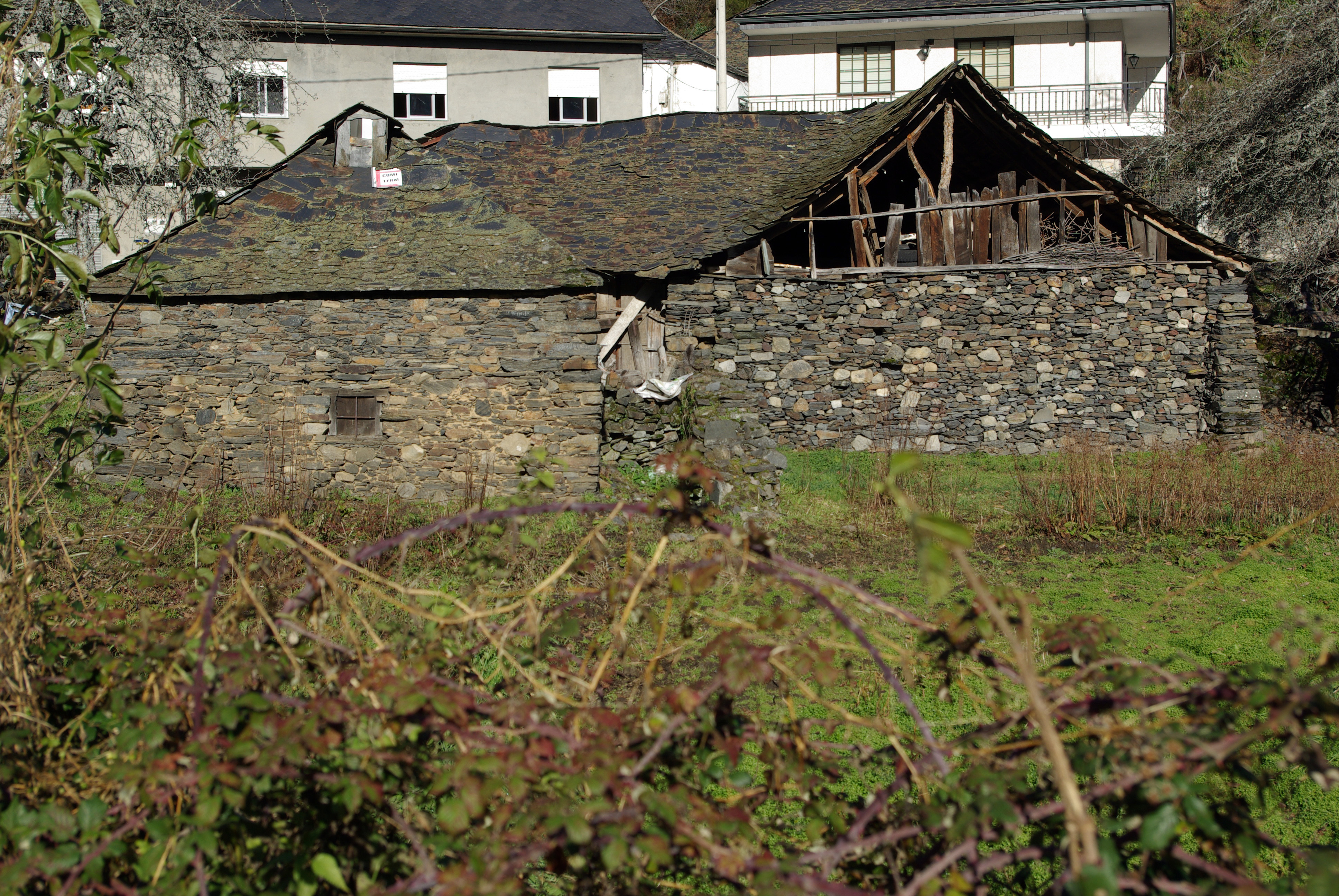 Vernacular architecture in Tejedo de Ancares (Candín, León, Spain)